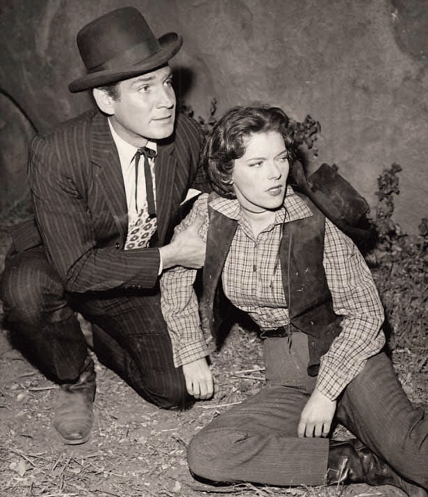 Gene Barry & Jacqueline Scott in the TV series Bat Masterson, episode The Black Pearls - publicity still (cropped)